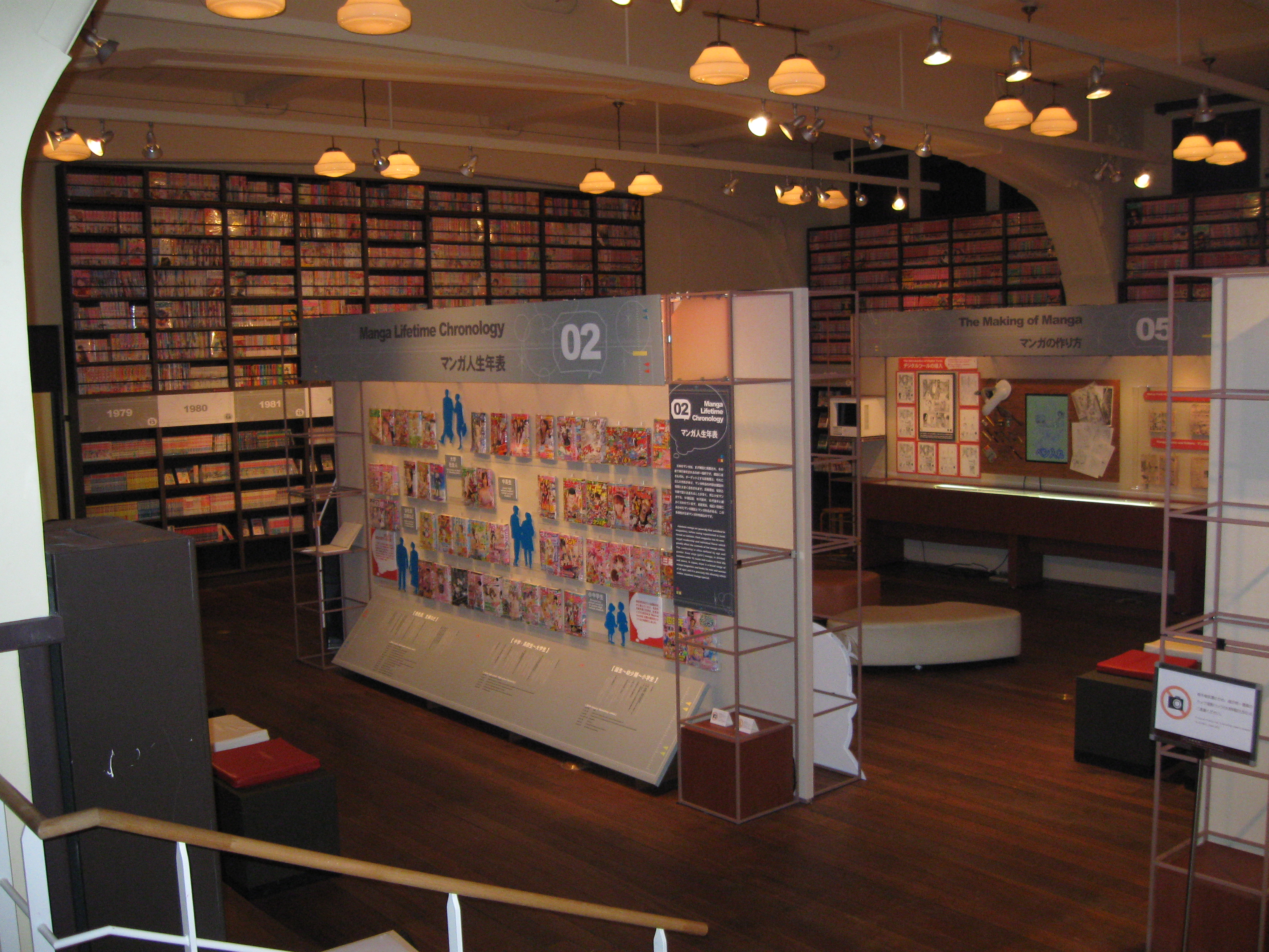 Manga from World War II to the present day can be pulled off the shelf and read.